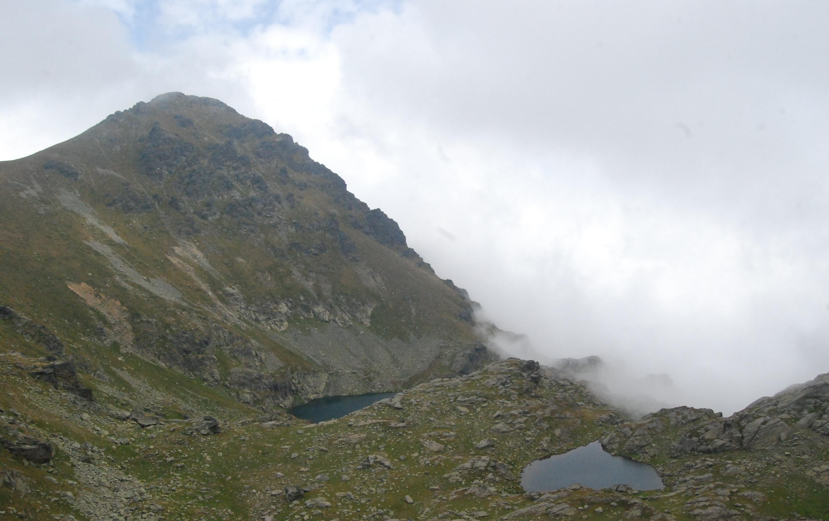 Gjeravica Mountain Kosovo 2656M from Fatos Katallozi